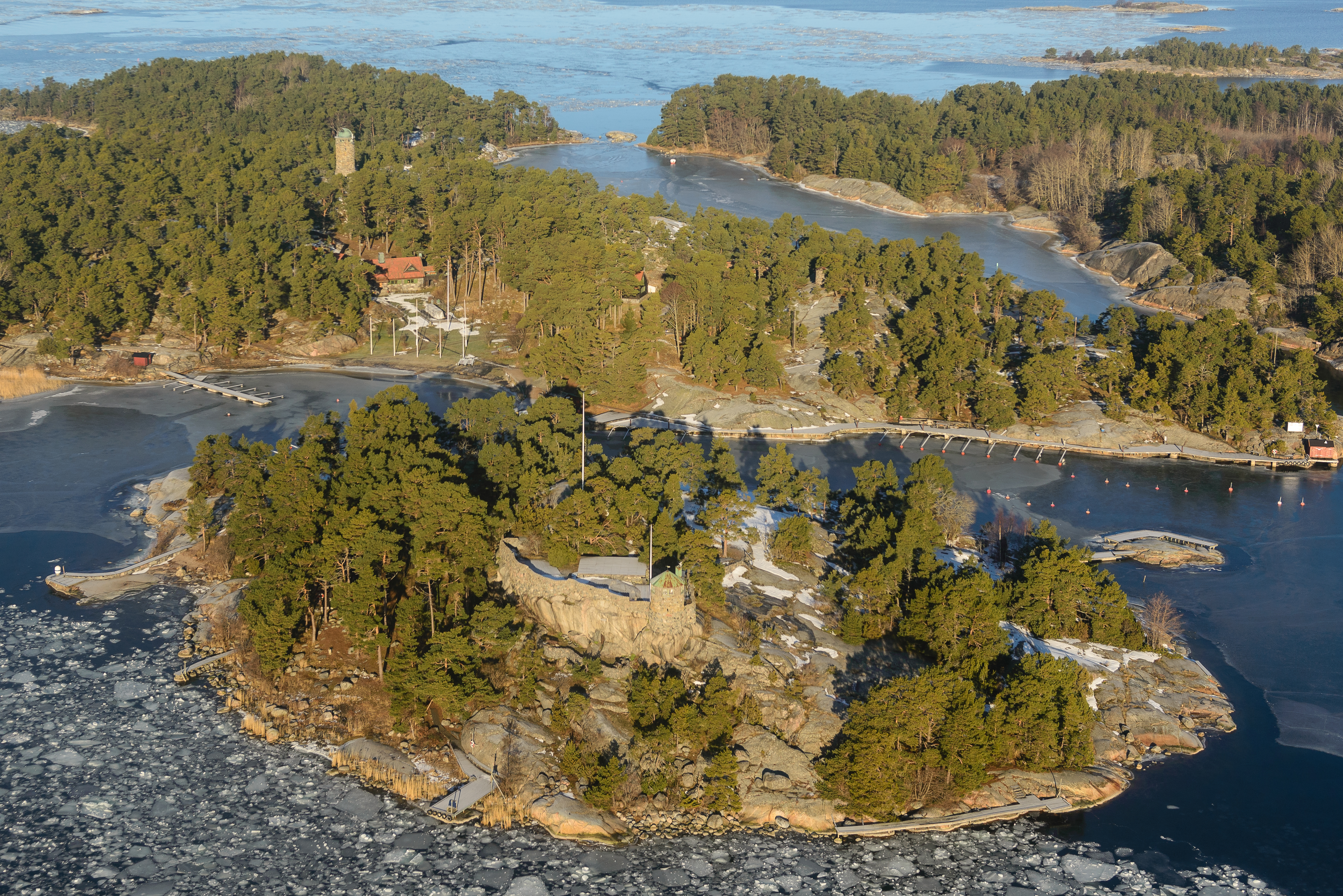 The islands of Trollharan in the foreground, Lökholmen beyond with the tower, and Kroksö to the right. All three islands are in the Stockholm archipelago near Sandhamn. Aerial images arranged by Wikimedia.